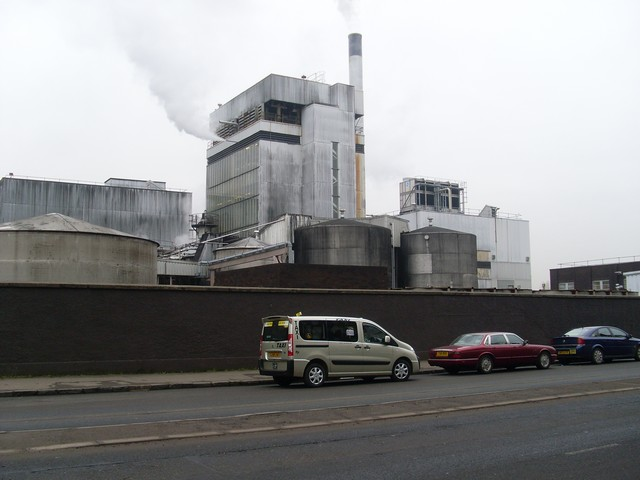 Strathclyde Distillery On Ballater Street in Glasgow's Gorbals.